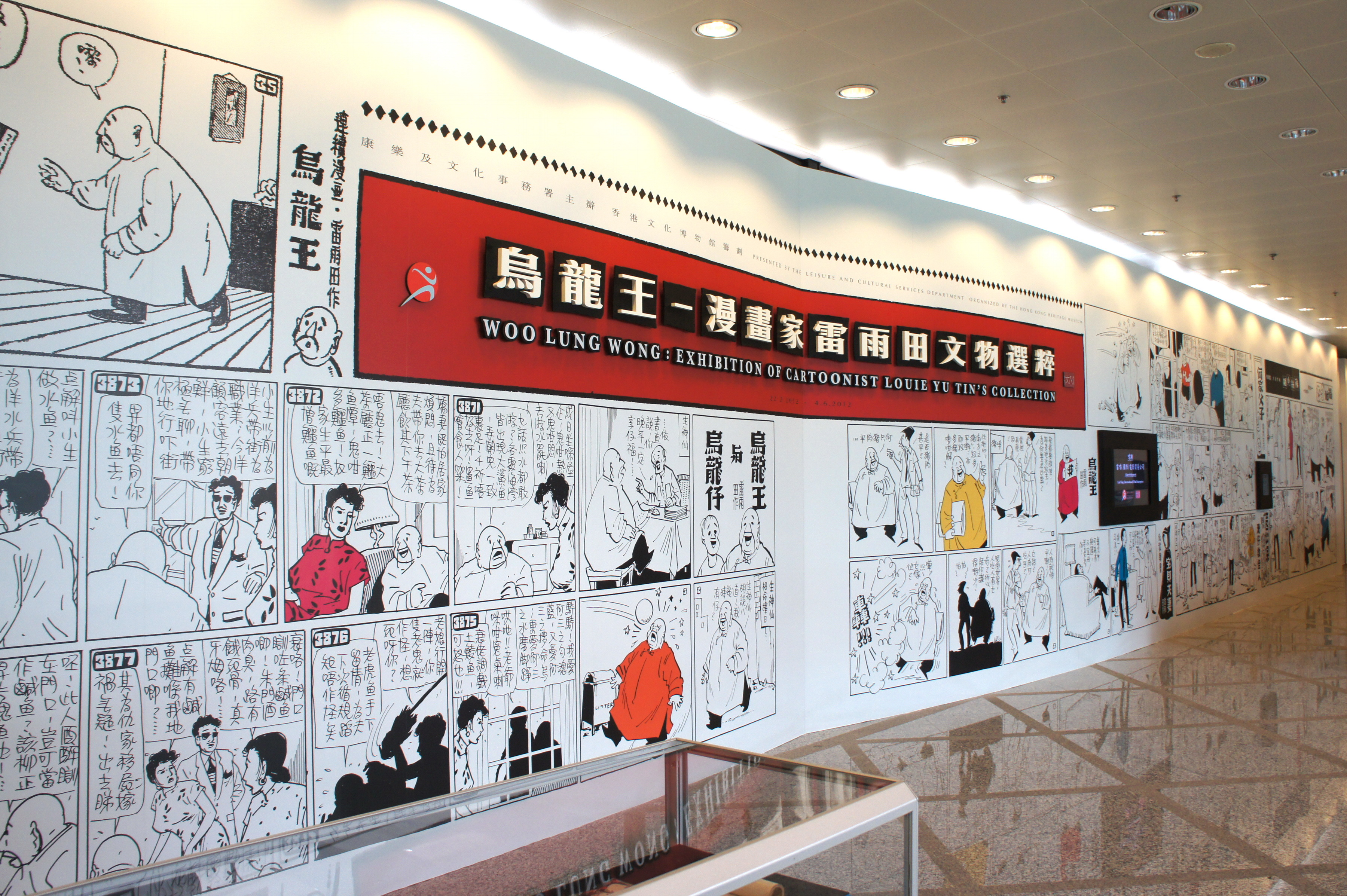 Woo Lung Wong : Exhibition of Cartoonist Louie Yu Tin’s Collection at the Hong Kong Heritage Museum (22 February 2012 - 4 June 2012)